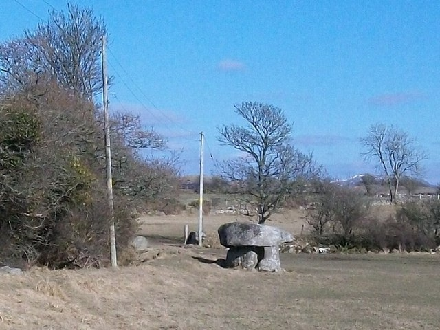 Cromlech Rhoslan from the west